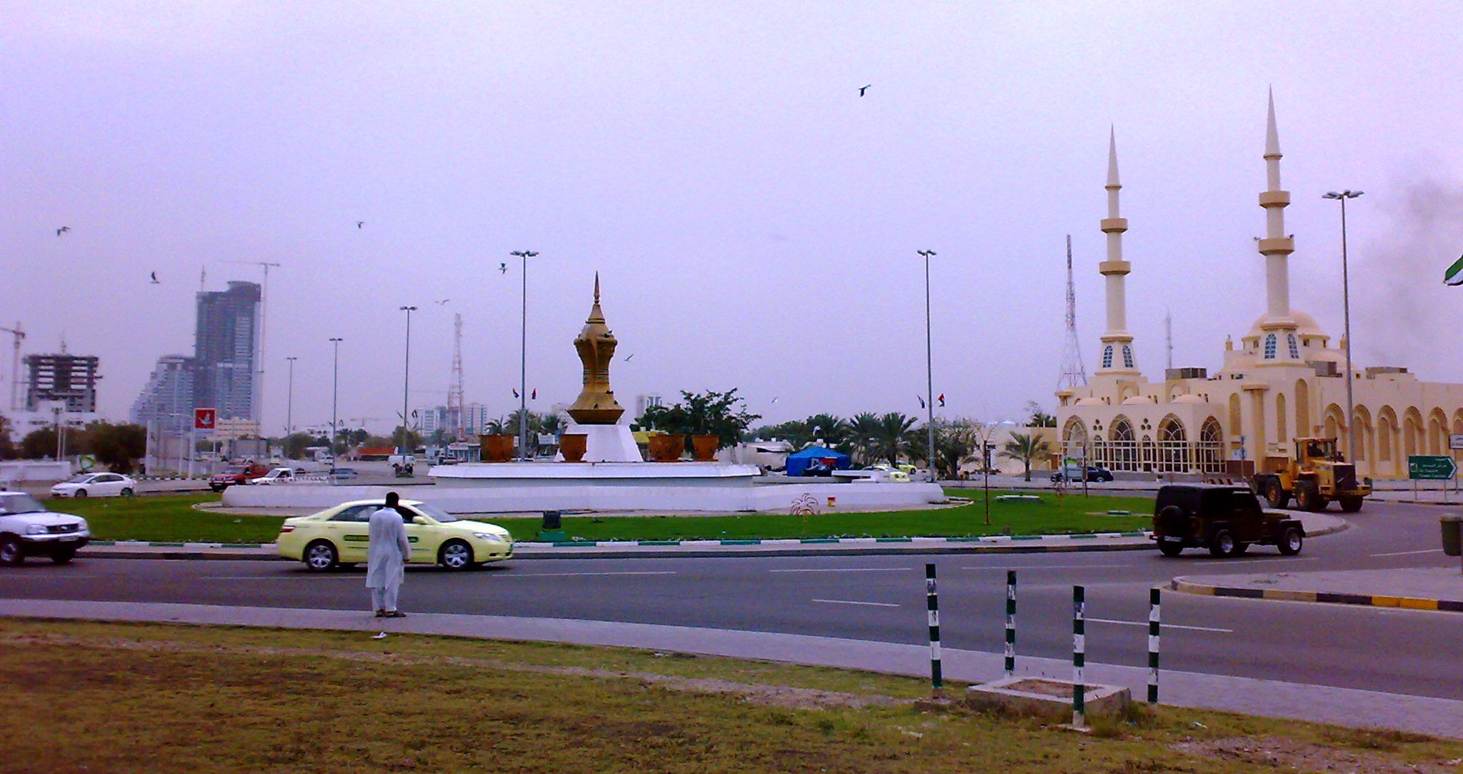 Image from the costal parts of the city of Fujairah, Emirate of Fujairah, United Arab Emirates